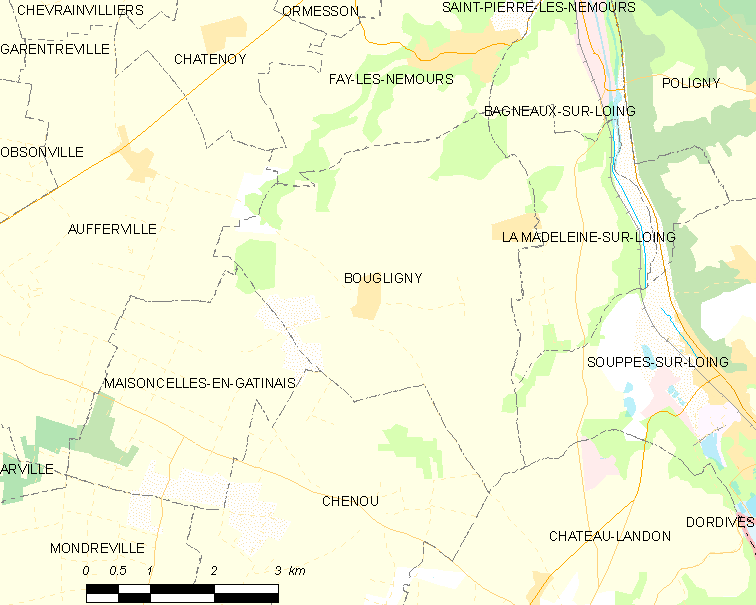 Map of French municipality Bougligny